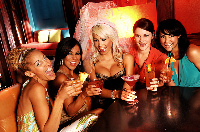 Bride-to-be (center) and friends share a toast at a bachelorette party